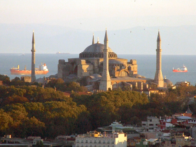 Hagia Sophia